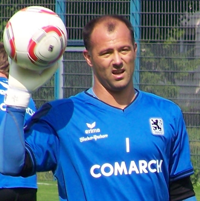 Gabor Kiraly, 1860 München, training